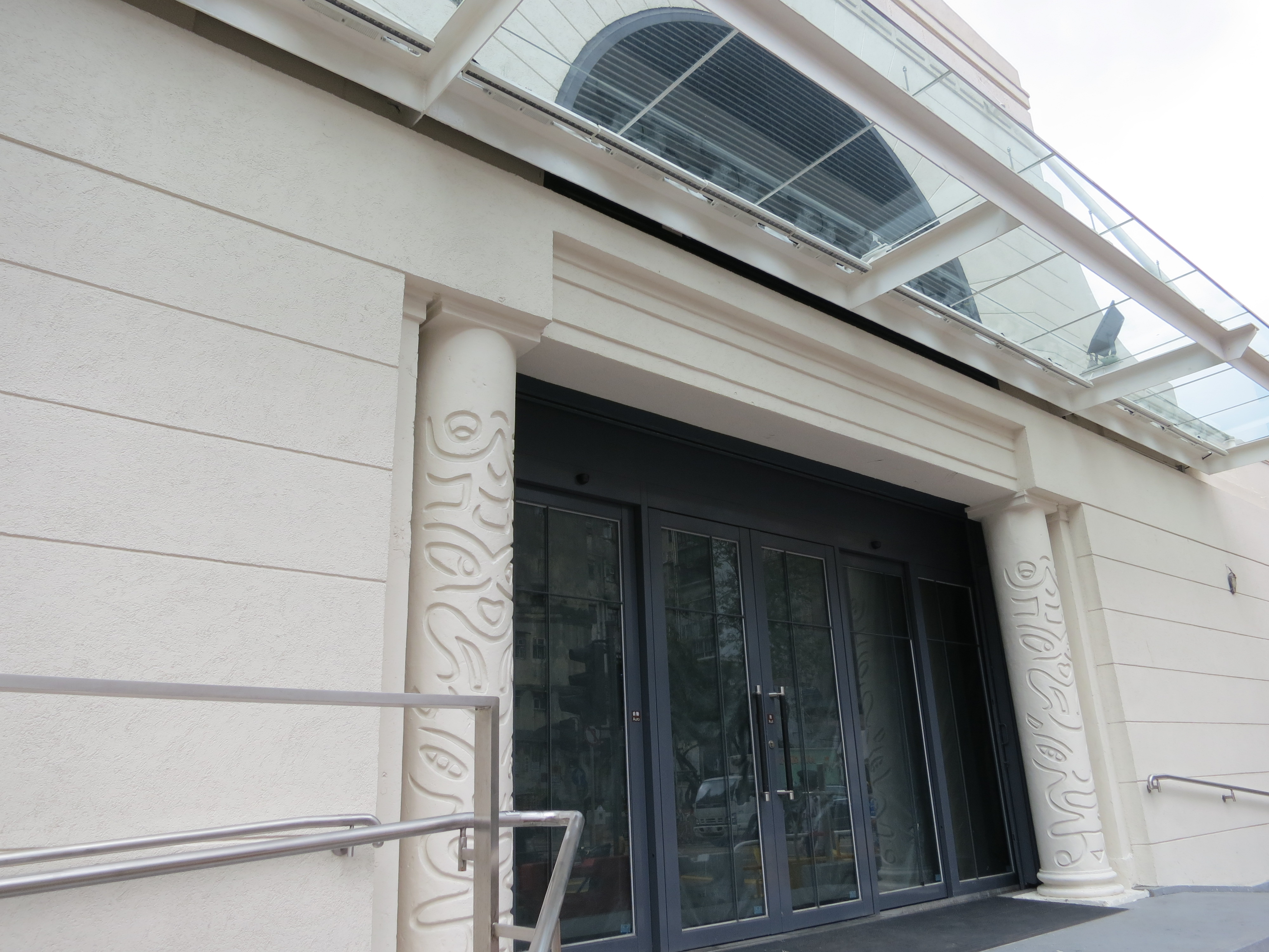 The Yau Ma Tei Theatre